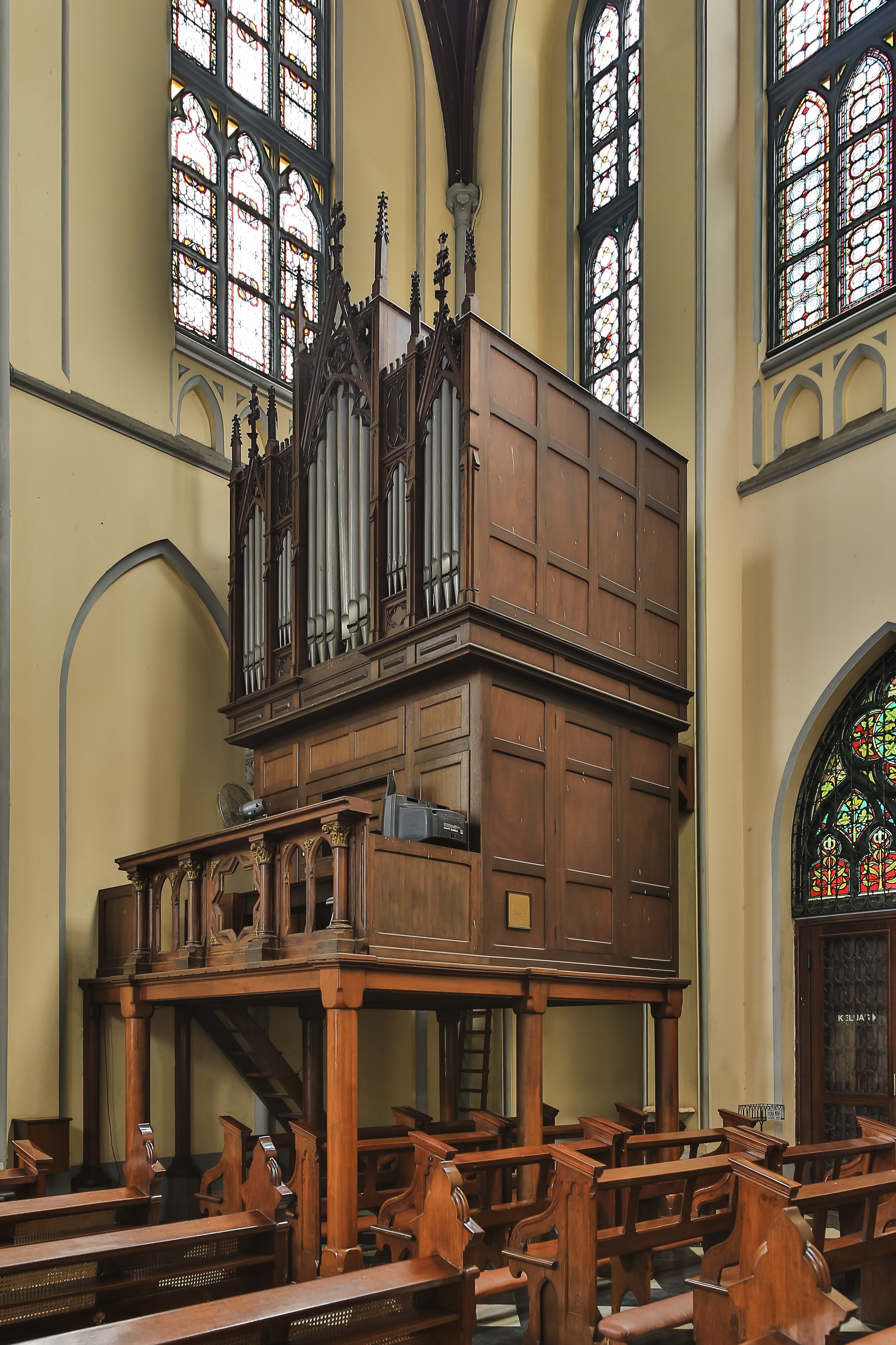 Jakarta, Indonesia: The organ of Jakarta Cathedral on its own elevated platform in the south transept, made by George Verschueren of Tongeren, Belgium.